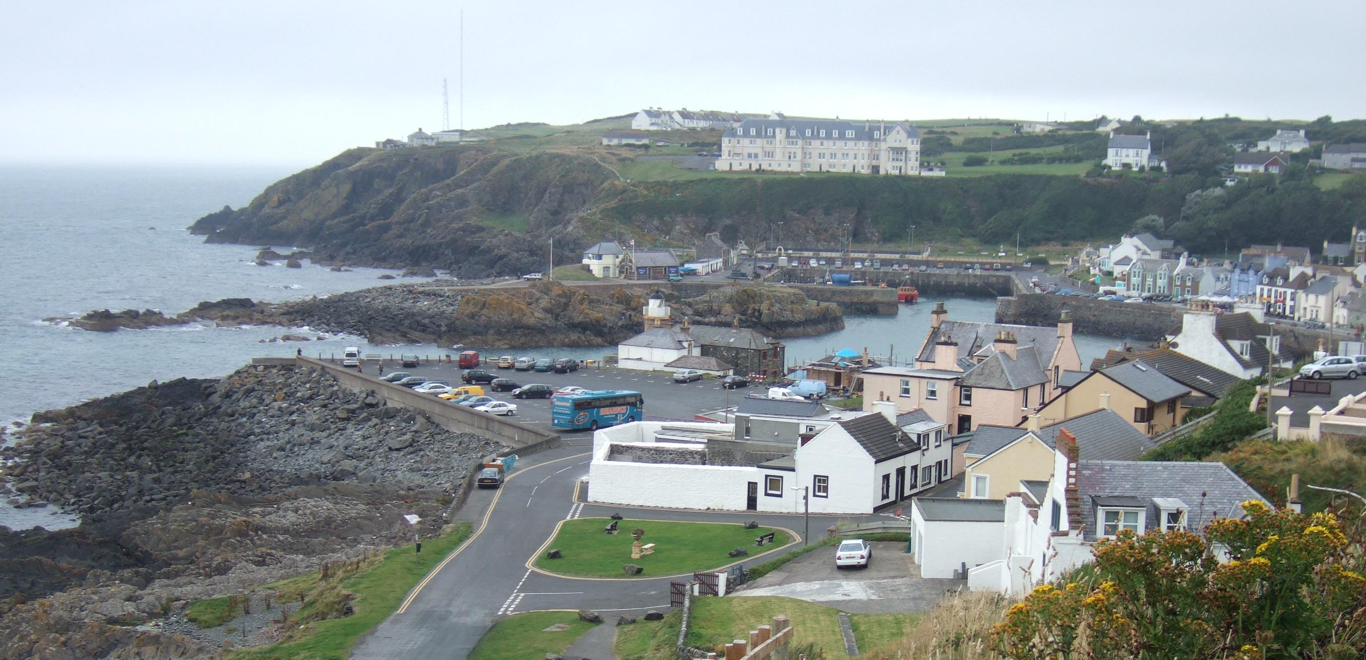 Portpatrick Harbour from the old railway line. 30th August 2005. Navtex transmitting station in the background to the left. Photographer - A.M.Hurrell Camera - Fuji FinePix F10 Modified - Trimmed and file size adjusted using FinePix software